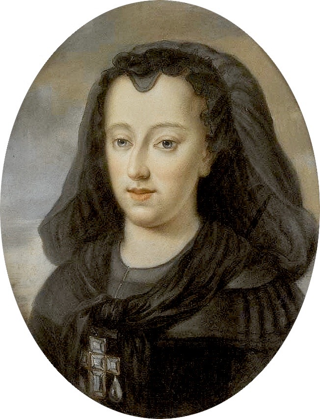 Violante Beatrice of Bavaria depicted in mourning attire after (1713) her husband's death, Grand Prince Ferdinando de' Medici.